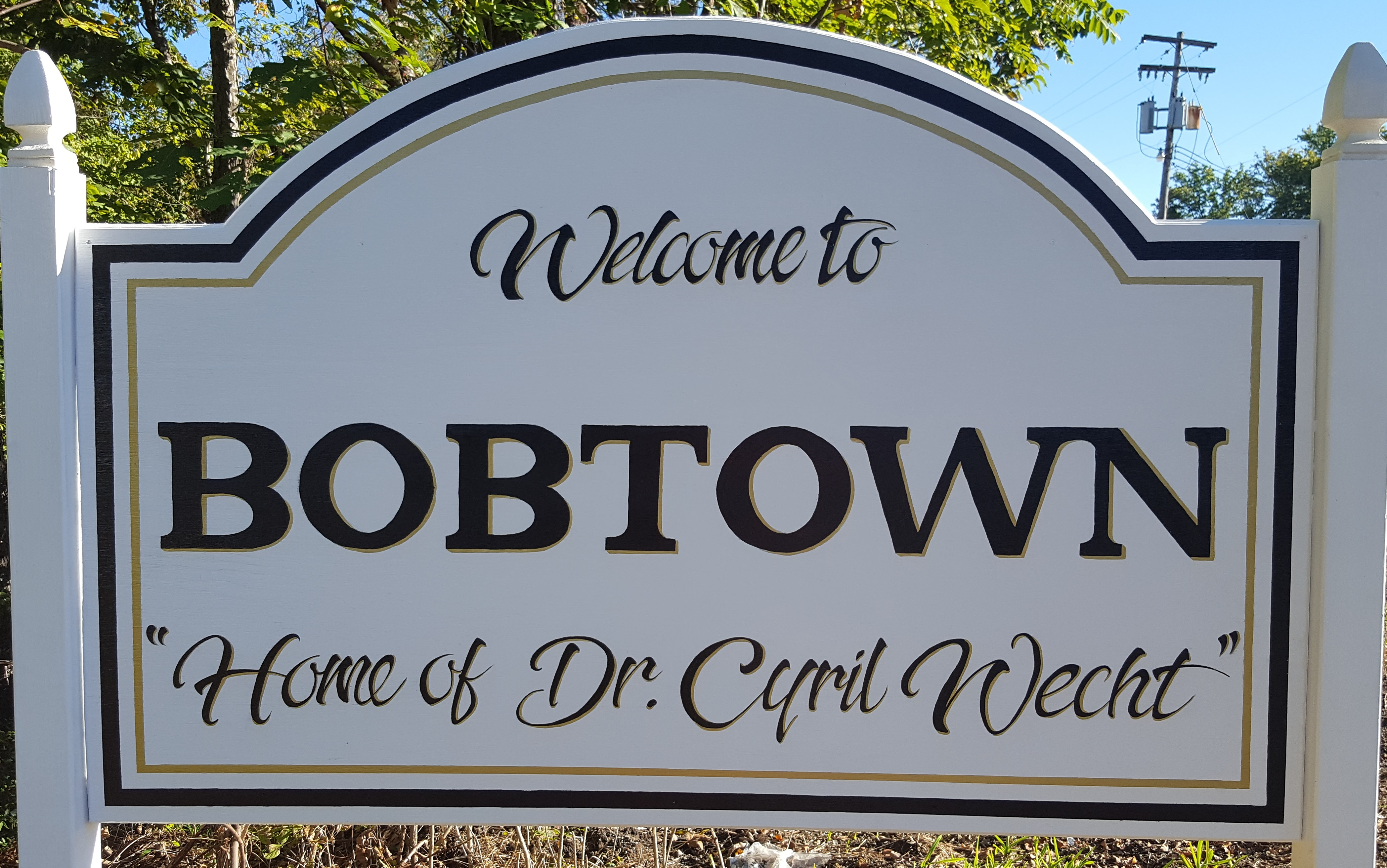 Bobtown Home of Dr. Wecht